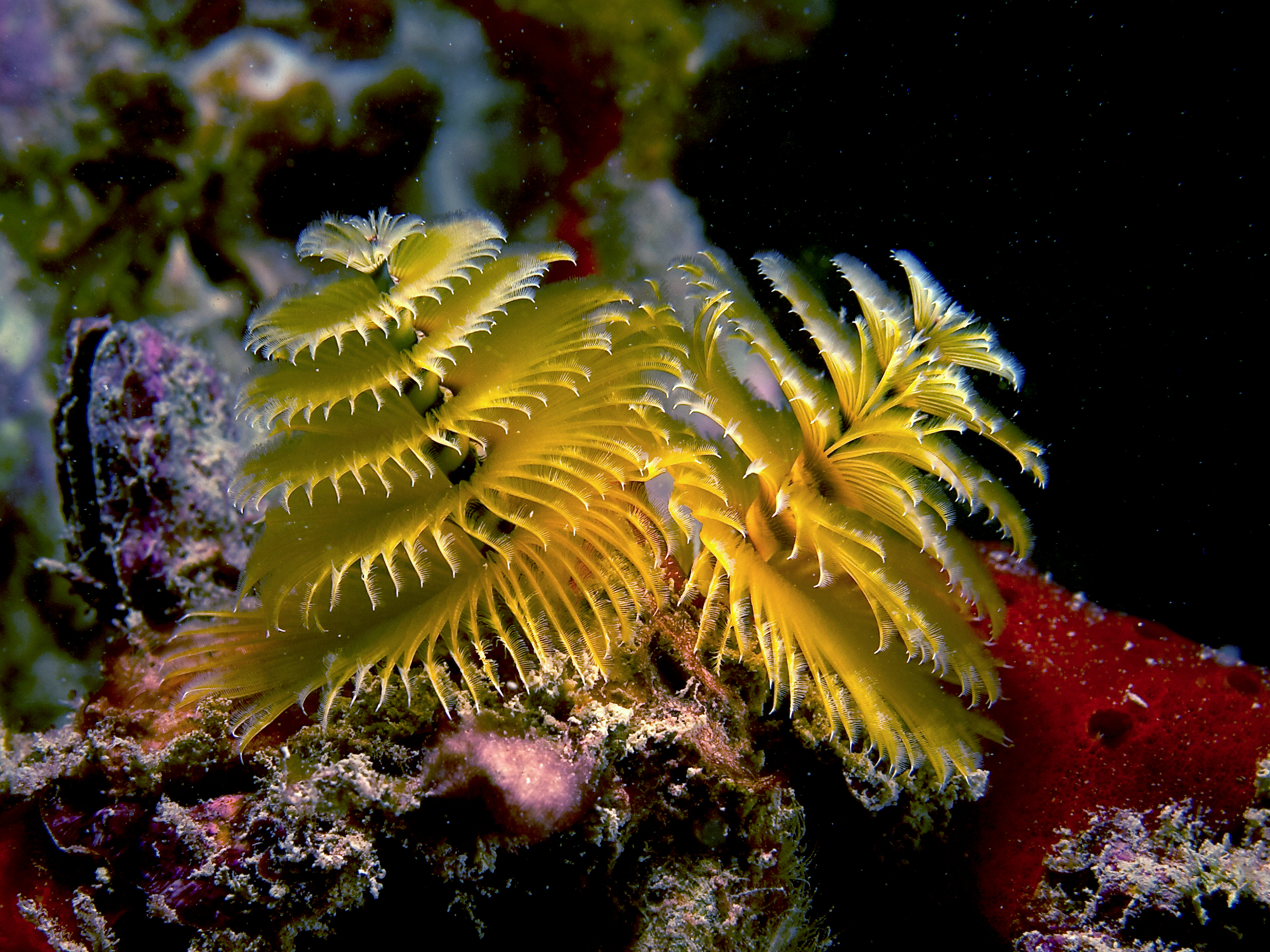 Spirobranchus giganteus (Christmastree Worm - yellow variation).